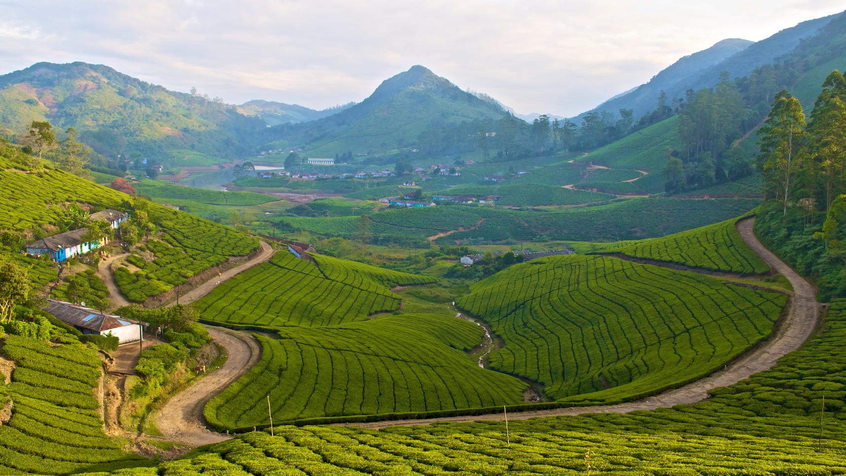 From Wiki: Meghamalai, popularly called High Wavy Mountains, is a cool and misty mountain range situated in the Western Ghats in Theni district, Tamilnadu, South India